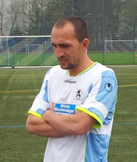 Gigi Holzer, player of 1860 Munich